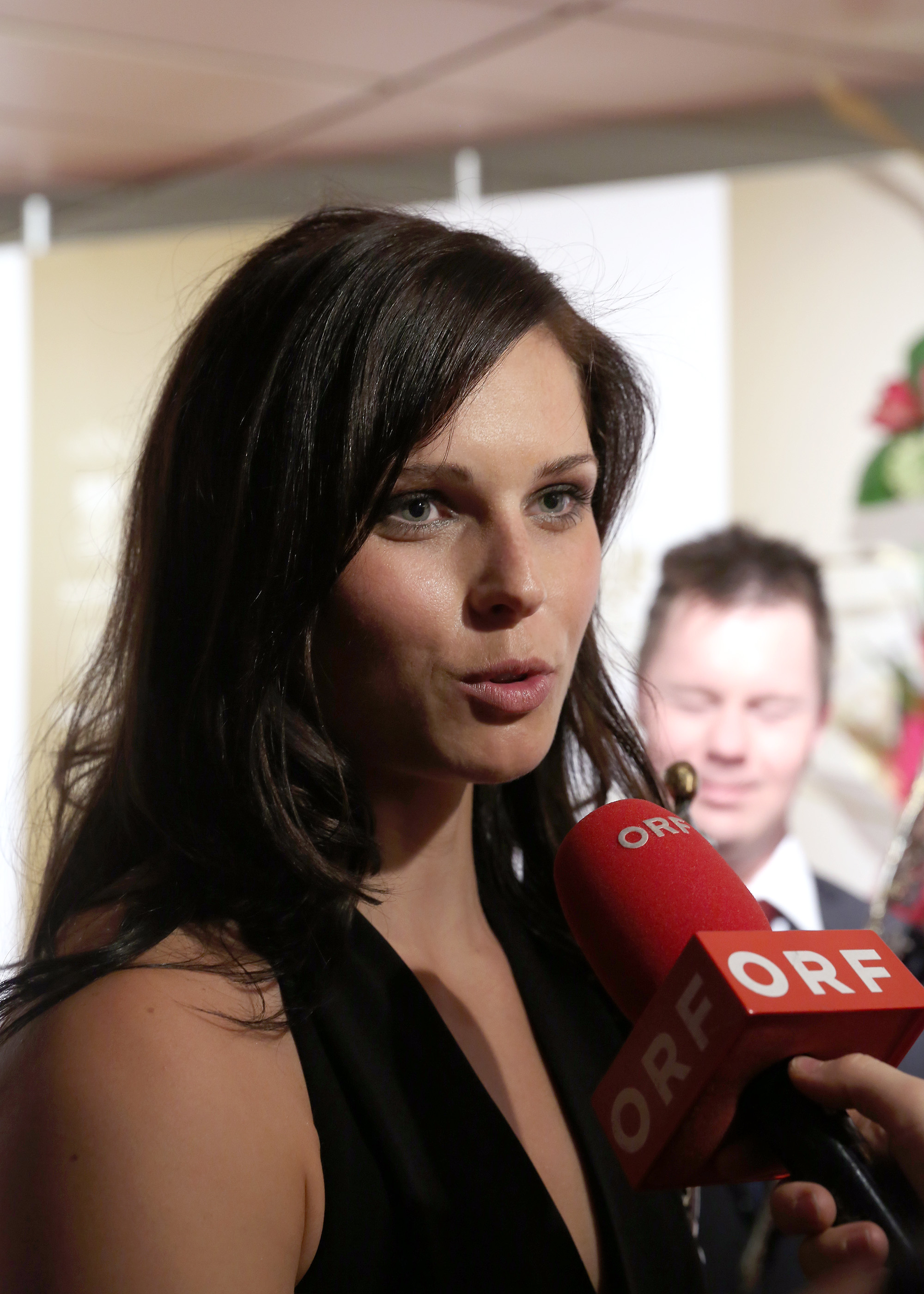 Anna Veith - Austrian Sportspersonalities of the Year 2014 (Austria Center Vienna).